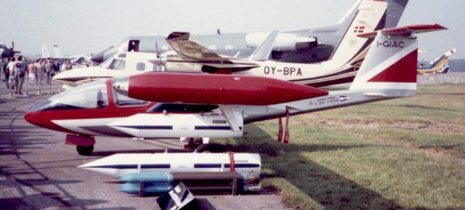 Caproni-Vizzola C-22J at Farnborough SBAC Show